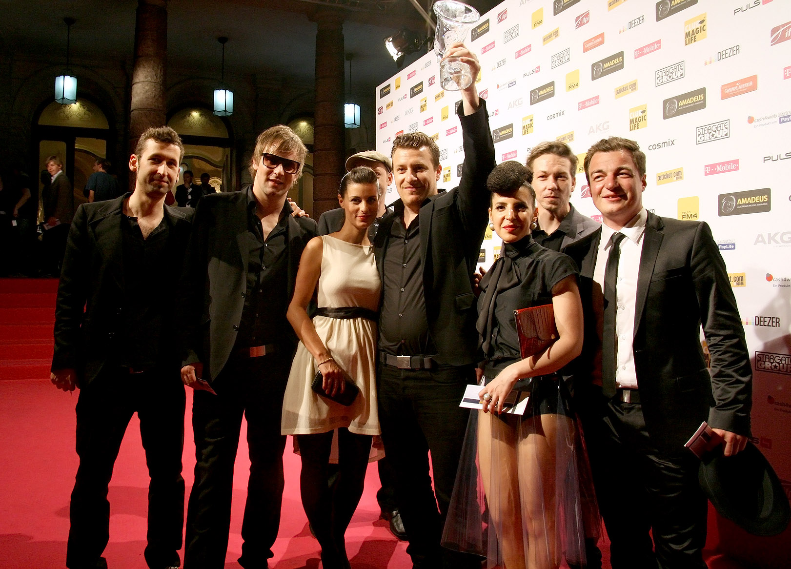 Parov Stelar, Amadeus Austrian Music Award 2012 at the Volkstheater in Vienna, Austria.